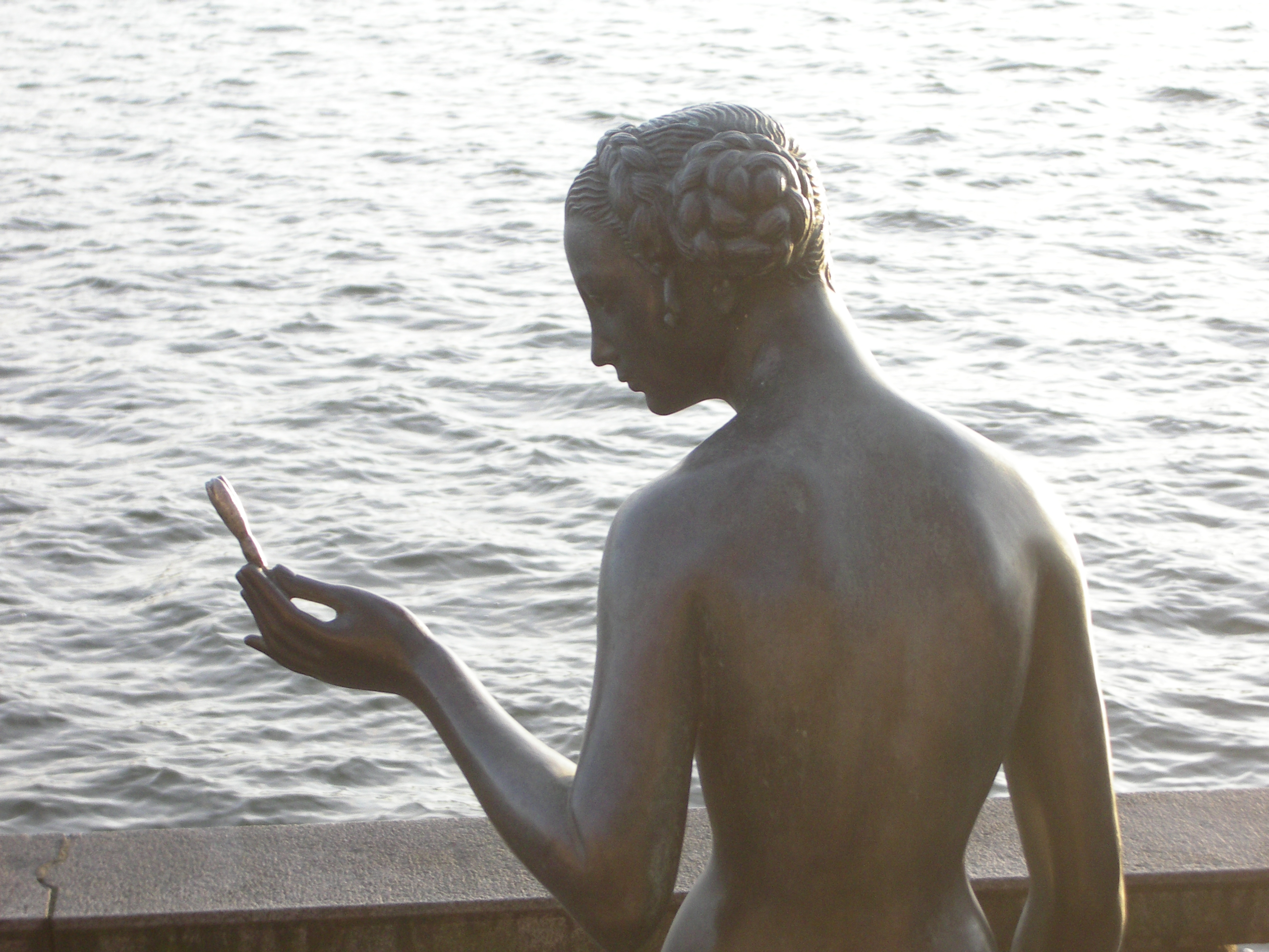 Town Hall of Stockholm